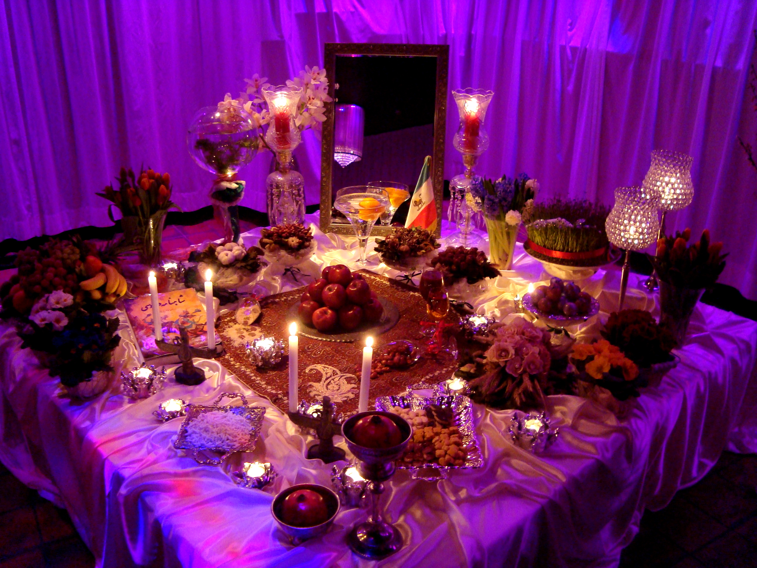 Persian New Year (Nowruz) Table: Haft Sin, in Holland - Photo by Pejman Akbarzadeh / Persian Dutch Network - (Haft-Sin Setting Table: Raheleh Nikoo / PDN)